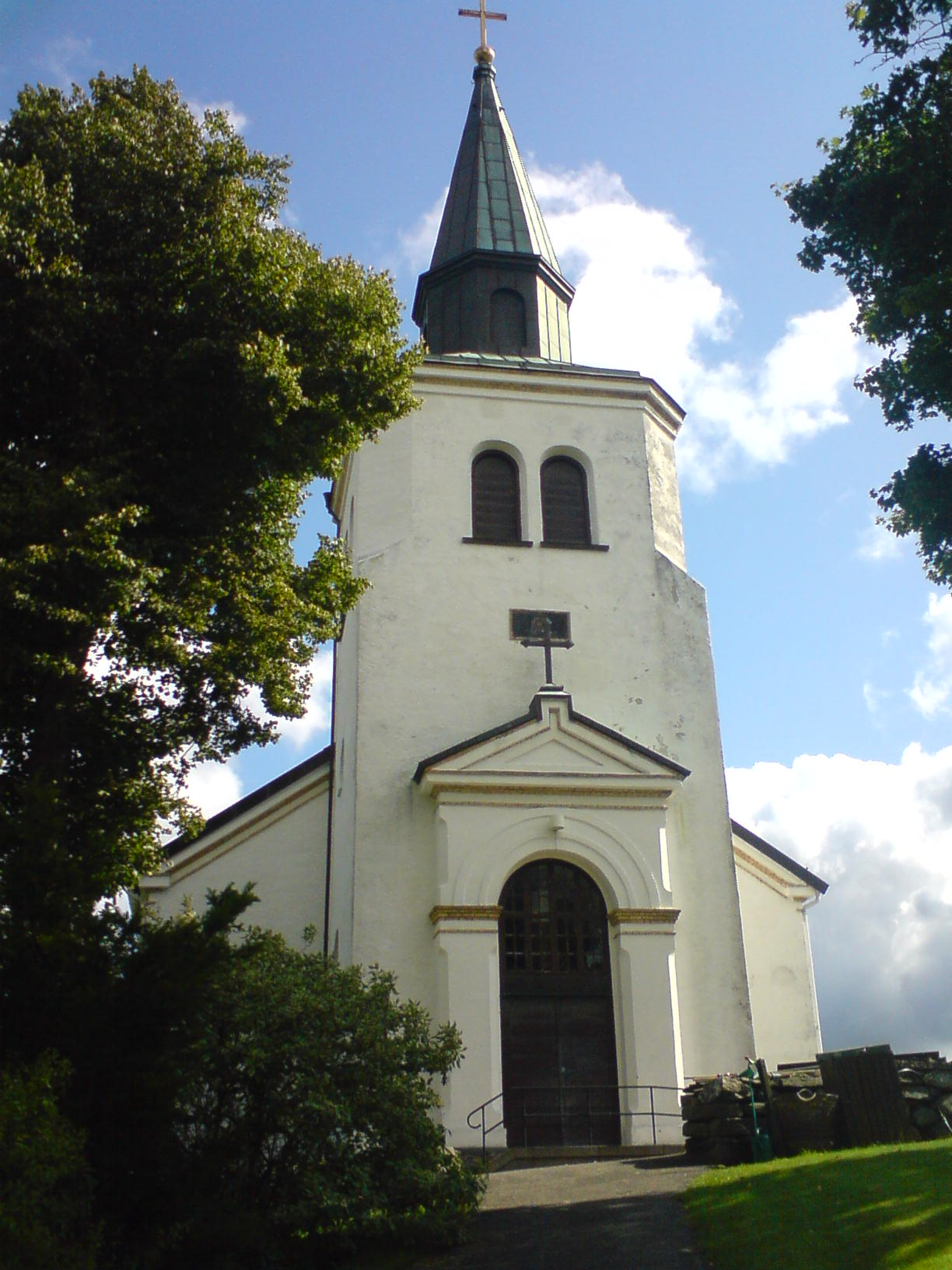 Parish church of Torp, Orust from the west.